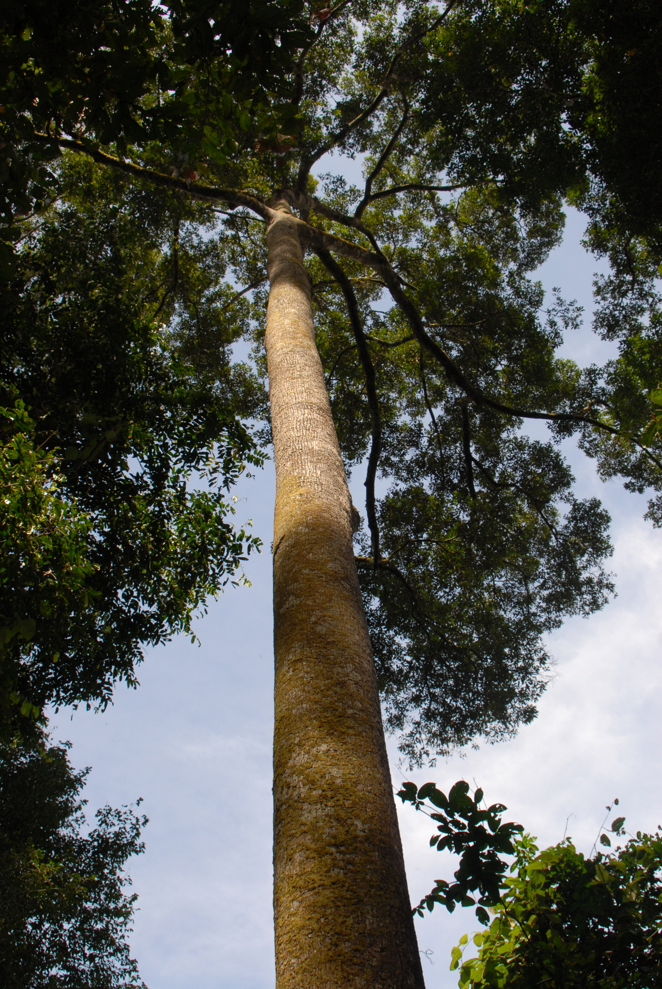 Big trees in Kayan Mentarang National Park